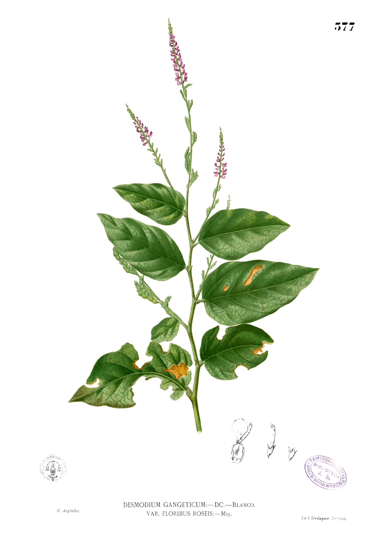 Plate from book